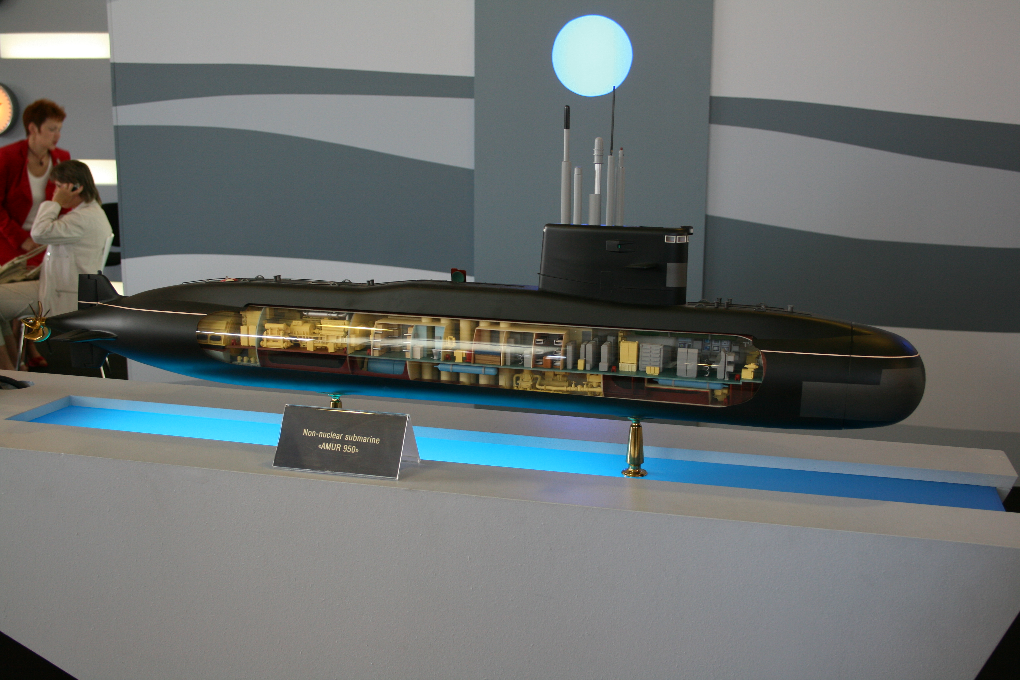 «Amur-950» submarine model, shown on IMDS-2007